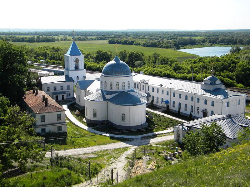 Свято-Успенский Дивногорский мужской монастырь